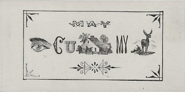 A Rebus "escort card" from about 1870. Store Web page states: "Three early rebus format escort cards "May I See You Home", all with wood cut images, one with frogs, dating from the 1860's-1870's. Measurement is appx. 3 3/8" x 1 5/8" on each"